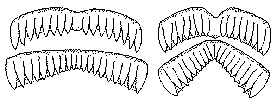 Wiwaxia feeding apparatus, closed and open. Refs: Conway Morris, S. (1985). "The Middle Cambrian metazoan Wiwaxia corrugata (Matthew) from the Burgess Shale and Ogygopsis Shale, British Columbia, Canada". Philosophical Transactions of the Royal Society of London, Series B 307: 507–582. Retrieved on 2008-08-04. Caron, J.B.; Scheltema, A., Schander, C., and Rudkin, D. (2006-07-13). "A soft-bodied mollusc with radula from the Middle Cambrian Burgess Shale". Nature 442 (7099): 159–163. PMID 16838013. Retrieved on 2008-08-07., of which a full pre-publication draft may be available at A soft-bodied mollusc with radula from the Middle Cambrian Burgess Shale. Retrieved on 2008-07-04.